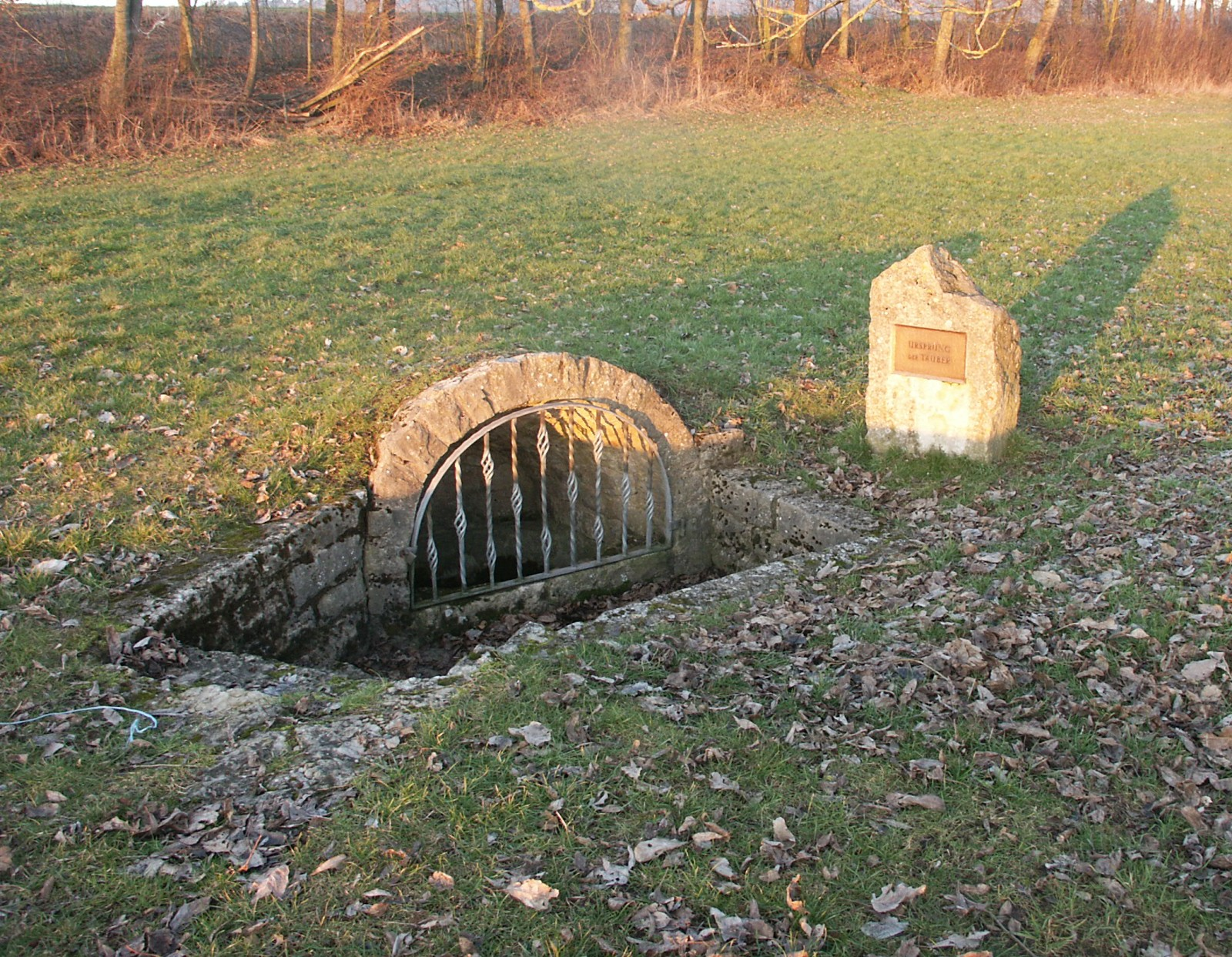 Spring of the river Tauber near Weikersholz, Rot am See, Germany